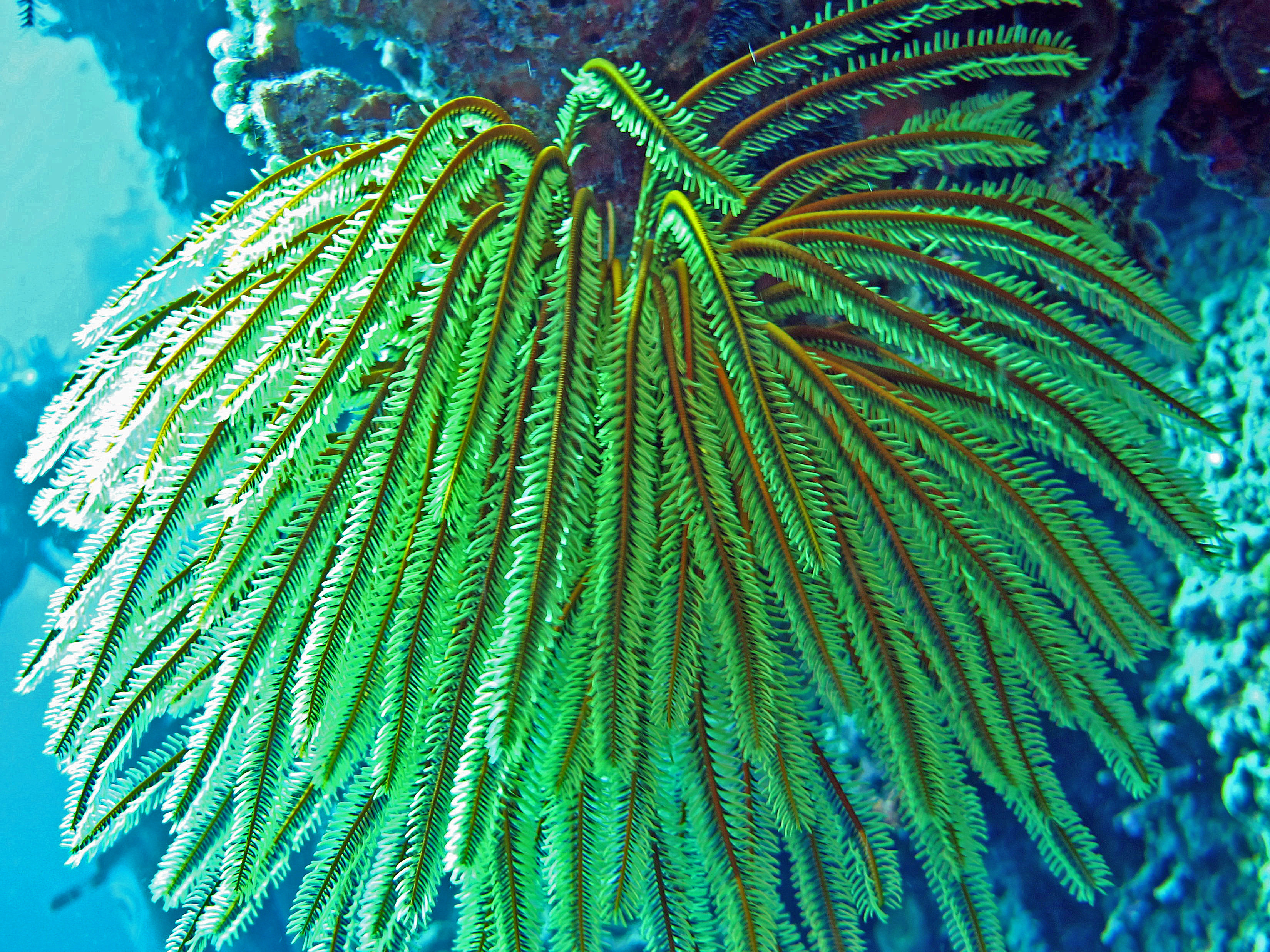 Oxycomanthus bennetti in Philippines